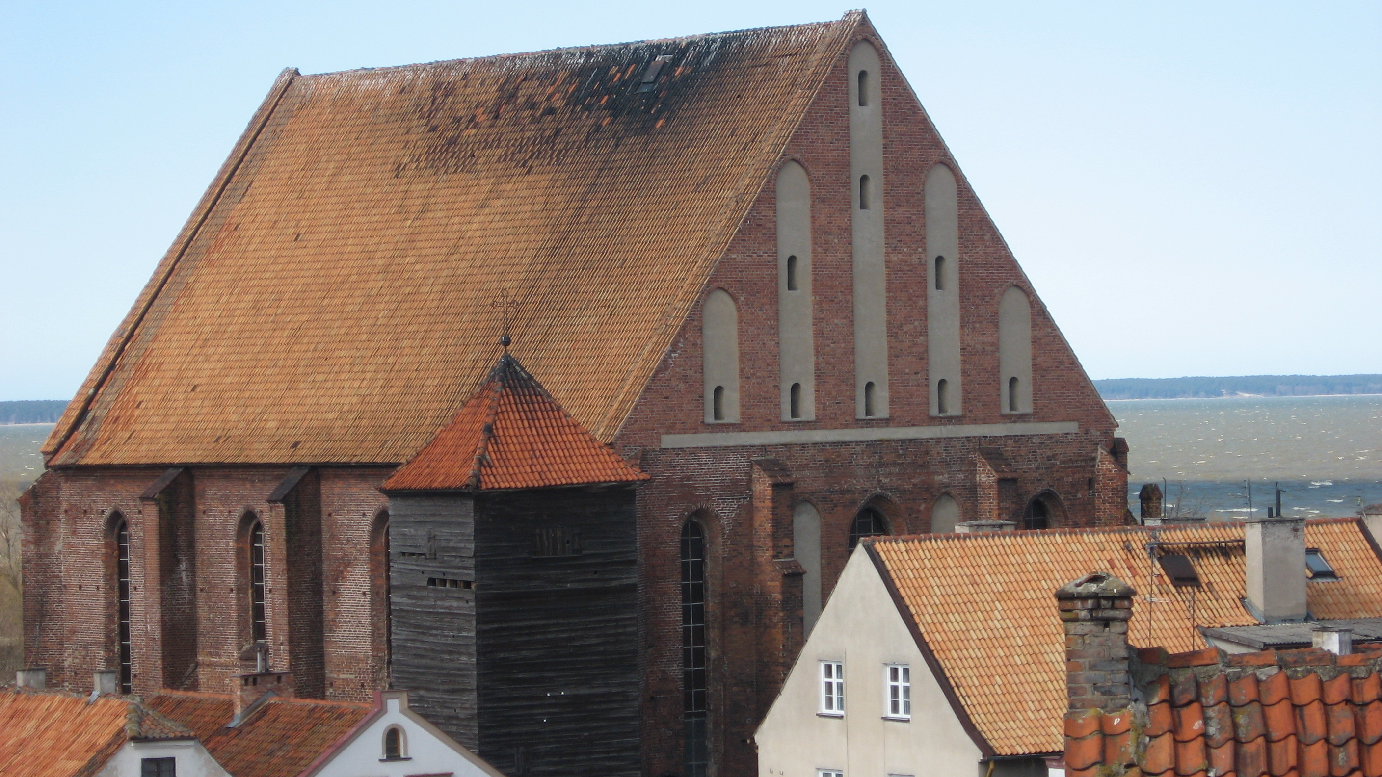 The church of St. Nicholas in Frombork